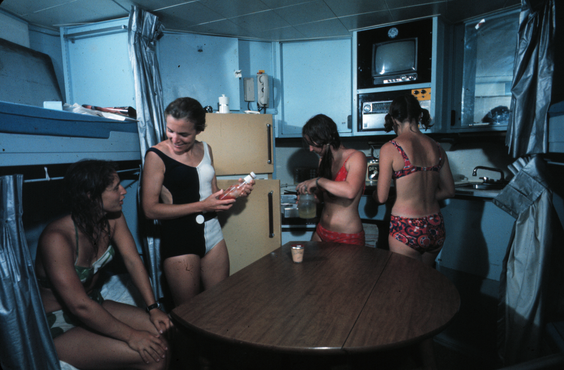 TEKTITE II all female team in crews quarters, including Sylvia Earle (b&w suit).